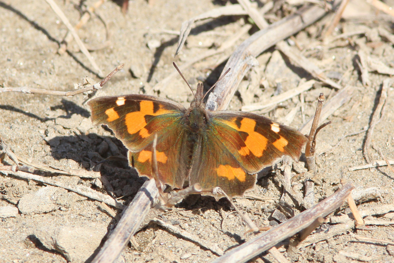 Libythea celtis. Location: France - Languedoc-Rousillon